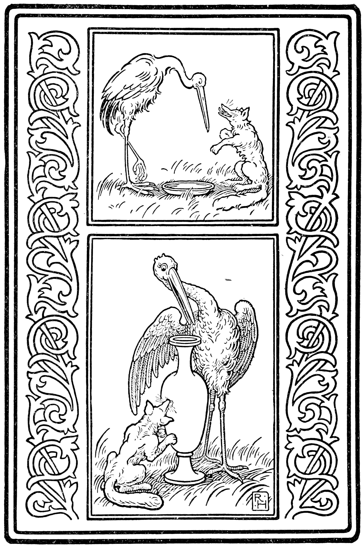 Collection of fables with illustrations.